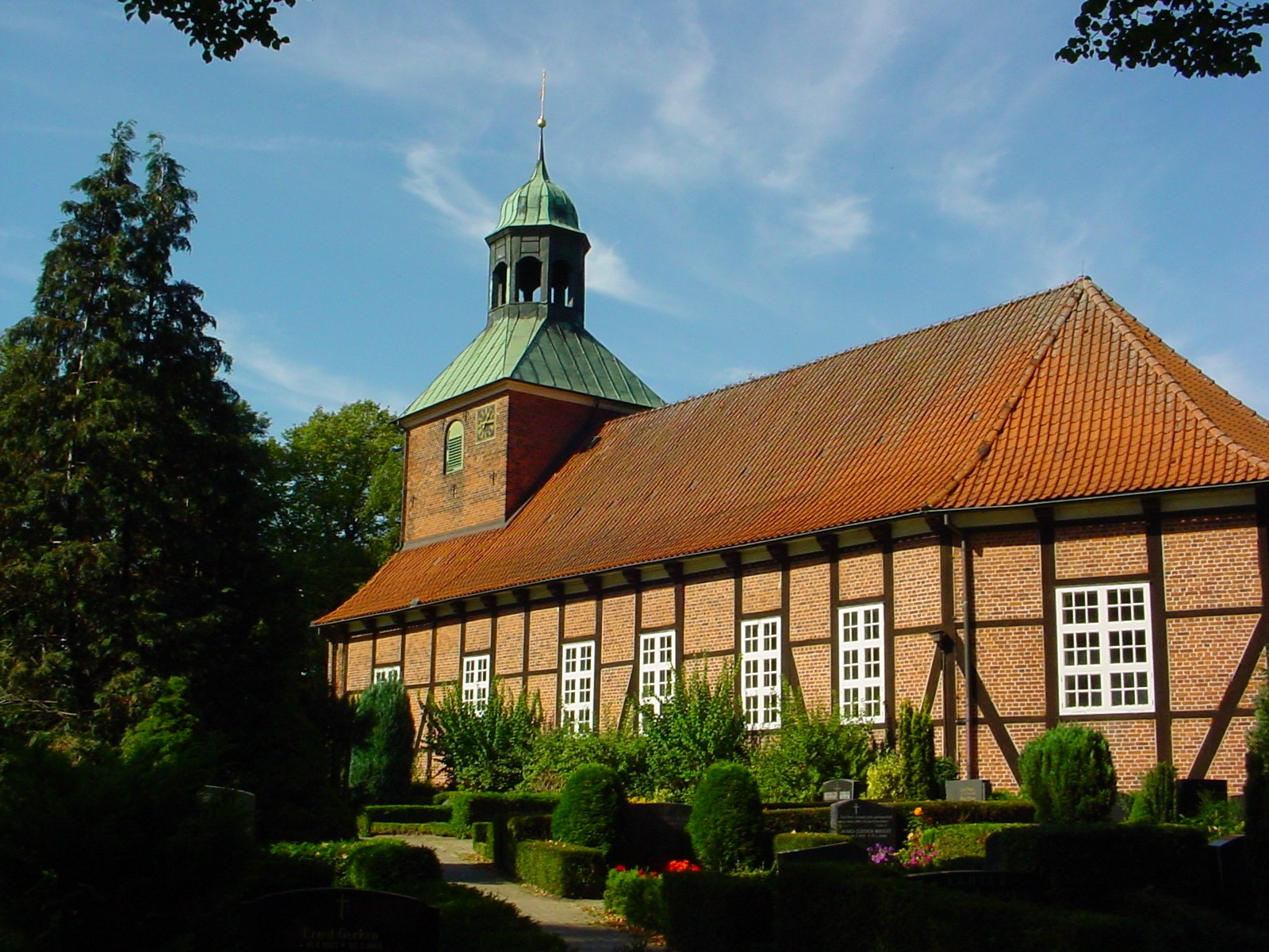 Church of Eichede (Stormarn, Germany)